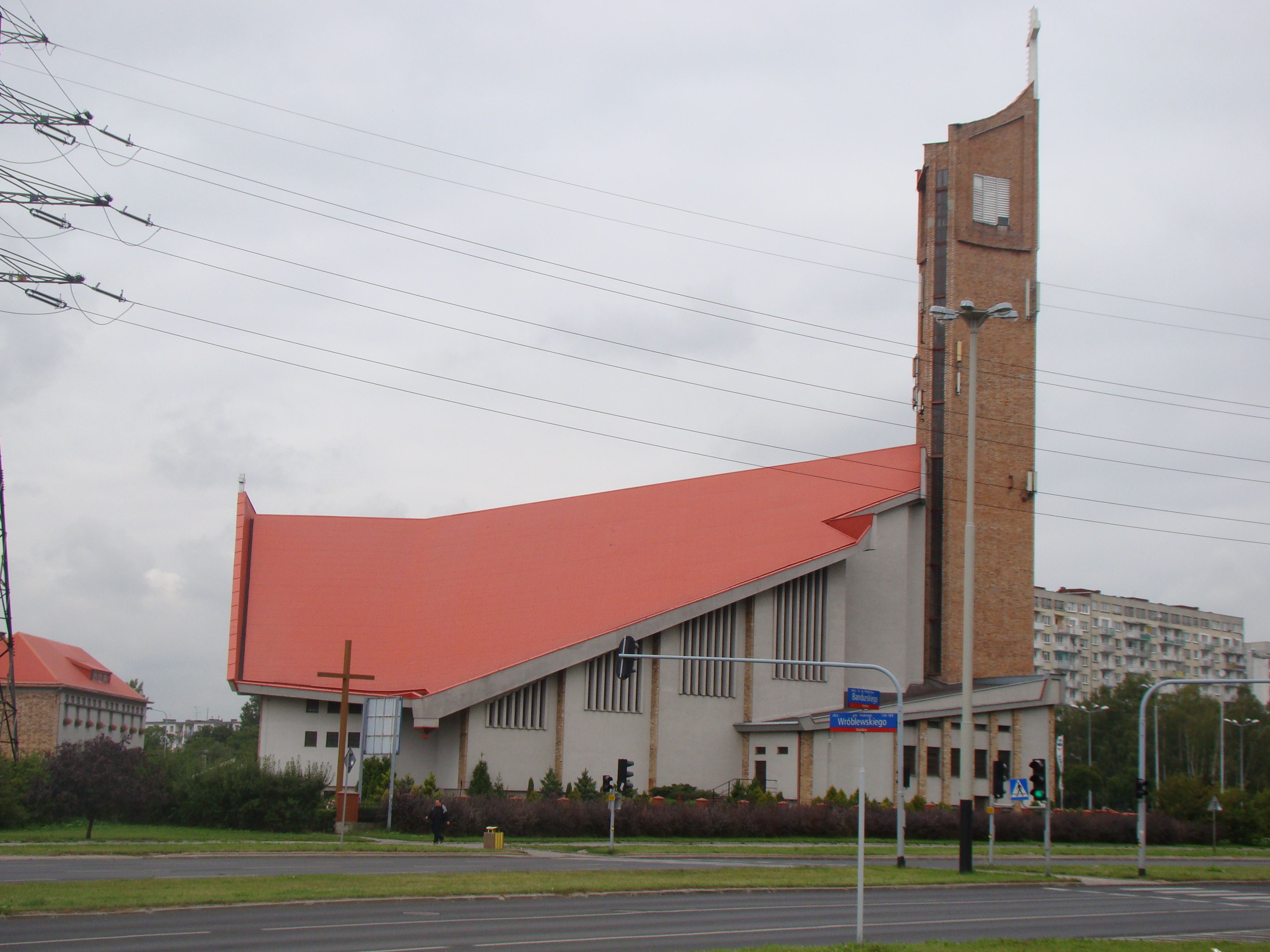 Catholic Church of Christ the King, Łódź, Poland